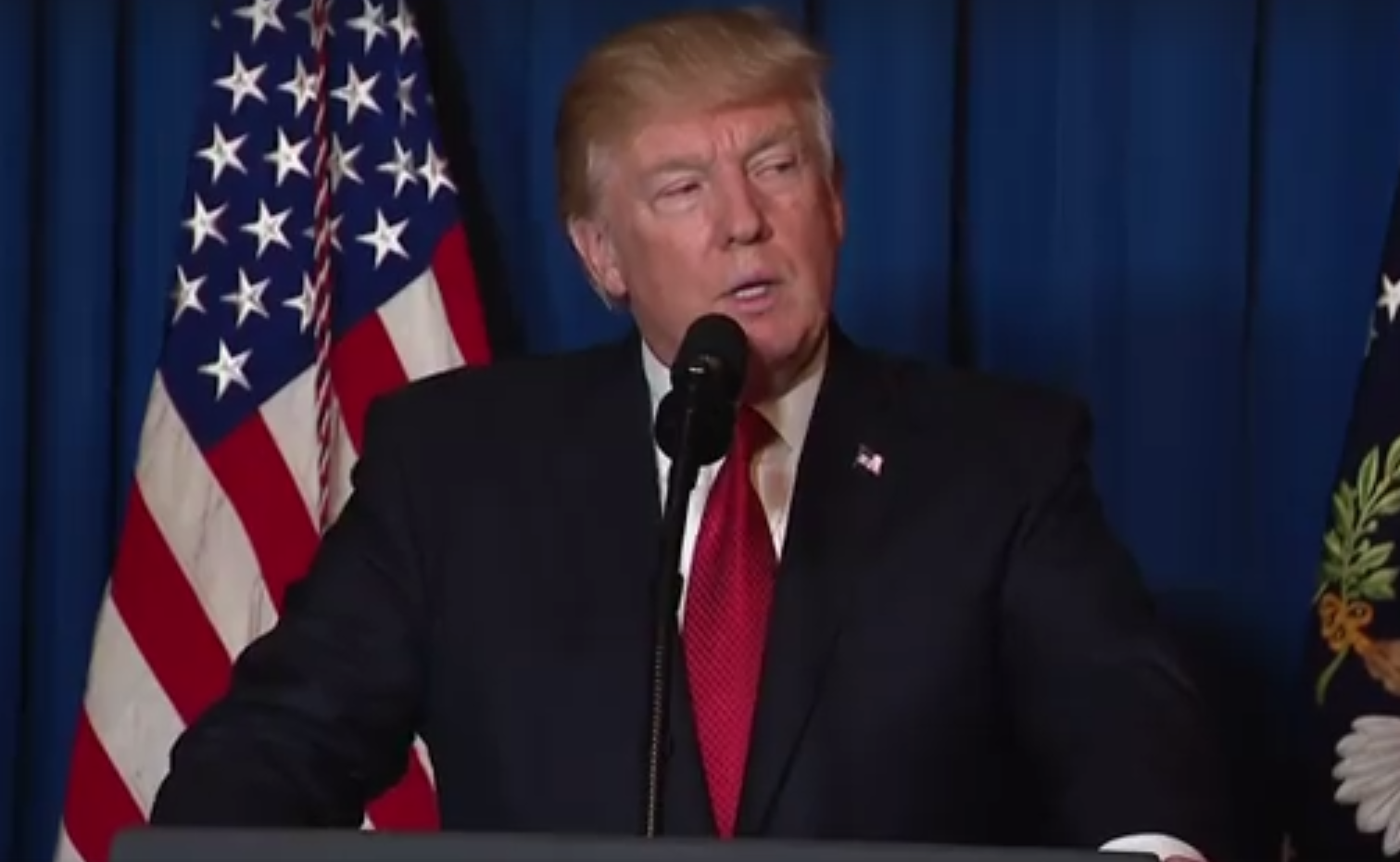 President Trump addresses the nation after authorizing missile strikes in Syria